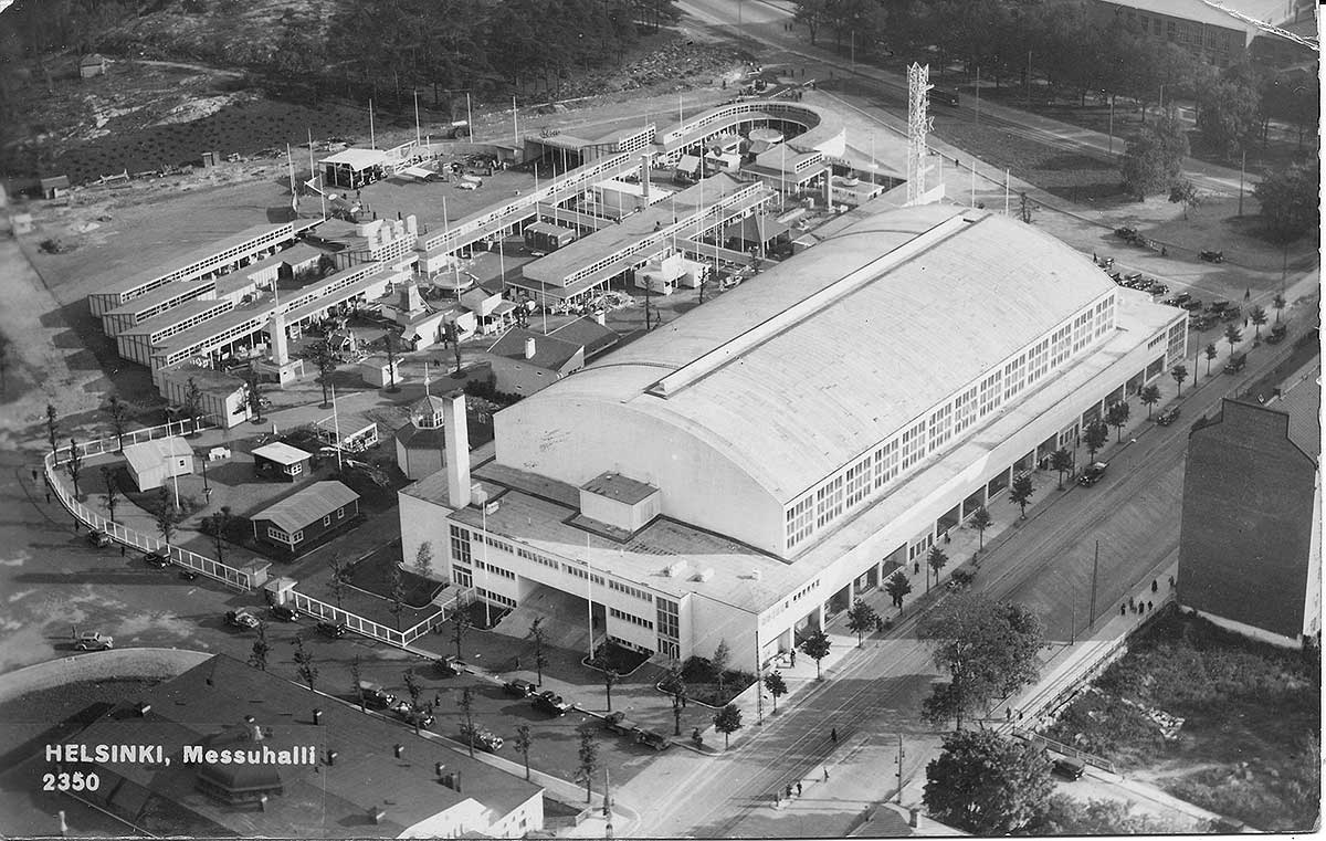 Helsinki exhibition hall from air